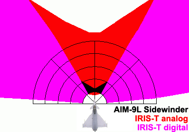 IRIS-T lock-on-area and radius compared to AIM-9 Sidewinder digital and analogue